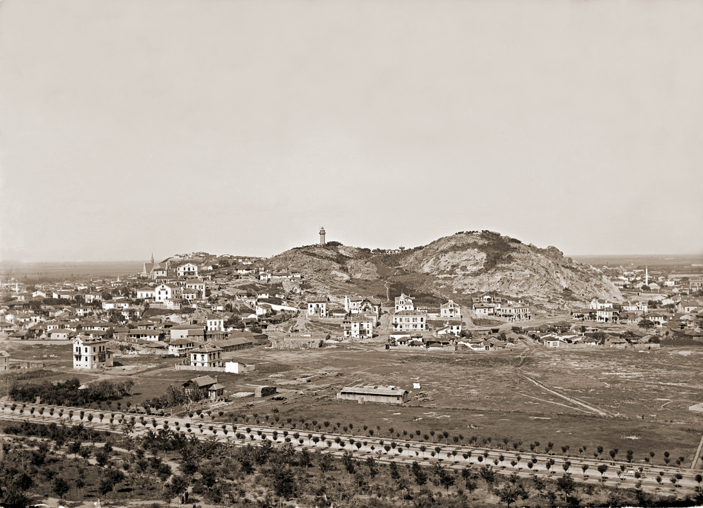 Plovdiv panorama